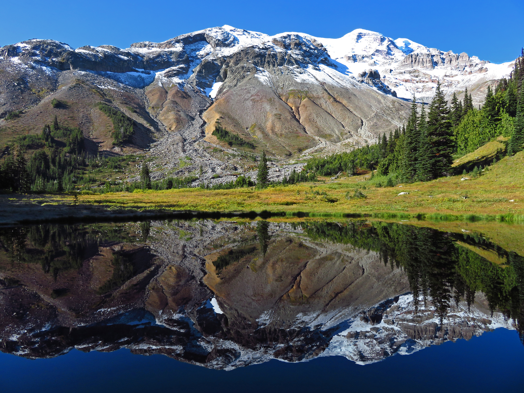 Glacier Basin at Mount Rainier National Park in Washington in The Pacific Northwest | Landscapes in The West by Jeff Hollett